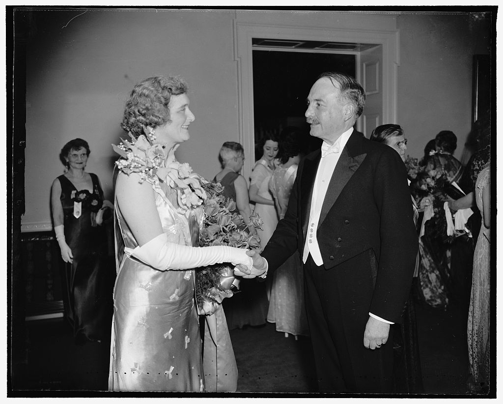 New French Ambassador welcomed to D.A.R. Congress. Washington, D.C., April 18. Mrs. William A. Becker, President General of the Daughters of the American Revolution, welcomes the French Ambassador Count De Saint-Quentin to the opening sessions of the 47th Annual Continental Congress which convened tonight, 4/18/37